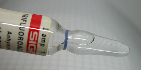 Ampoule, containing 1 ml of very pure CF3COOH.